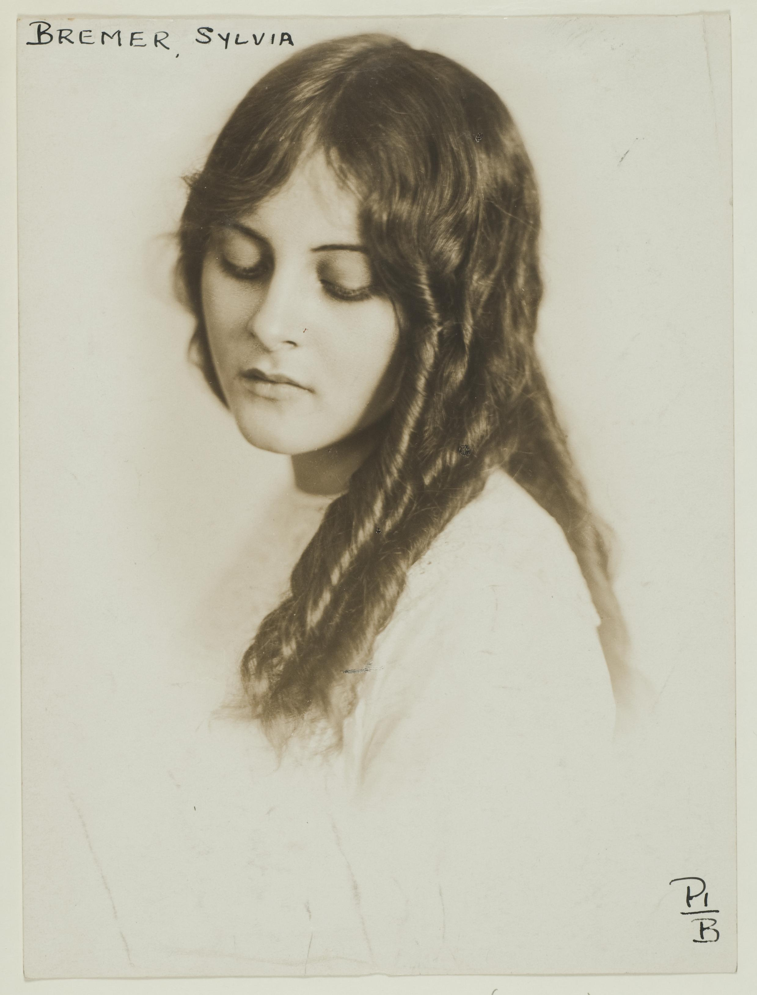 Sylvia Bremer (later Sylvia Breamer), actor, ca. 1911-12, by May Moore. Find out more about photographers May & Minnie Moore: Format: Photograph Find more detailed information about this photograph: Search for more great images in the State Library's collections: From the collection of the State Library of New South Wales